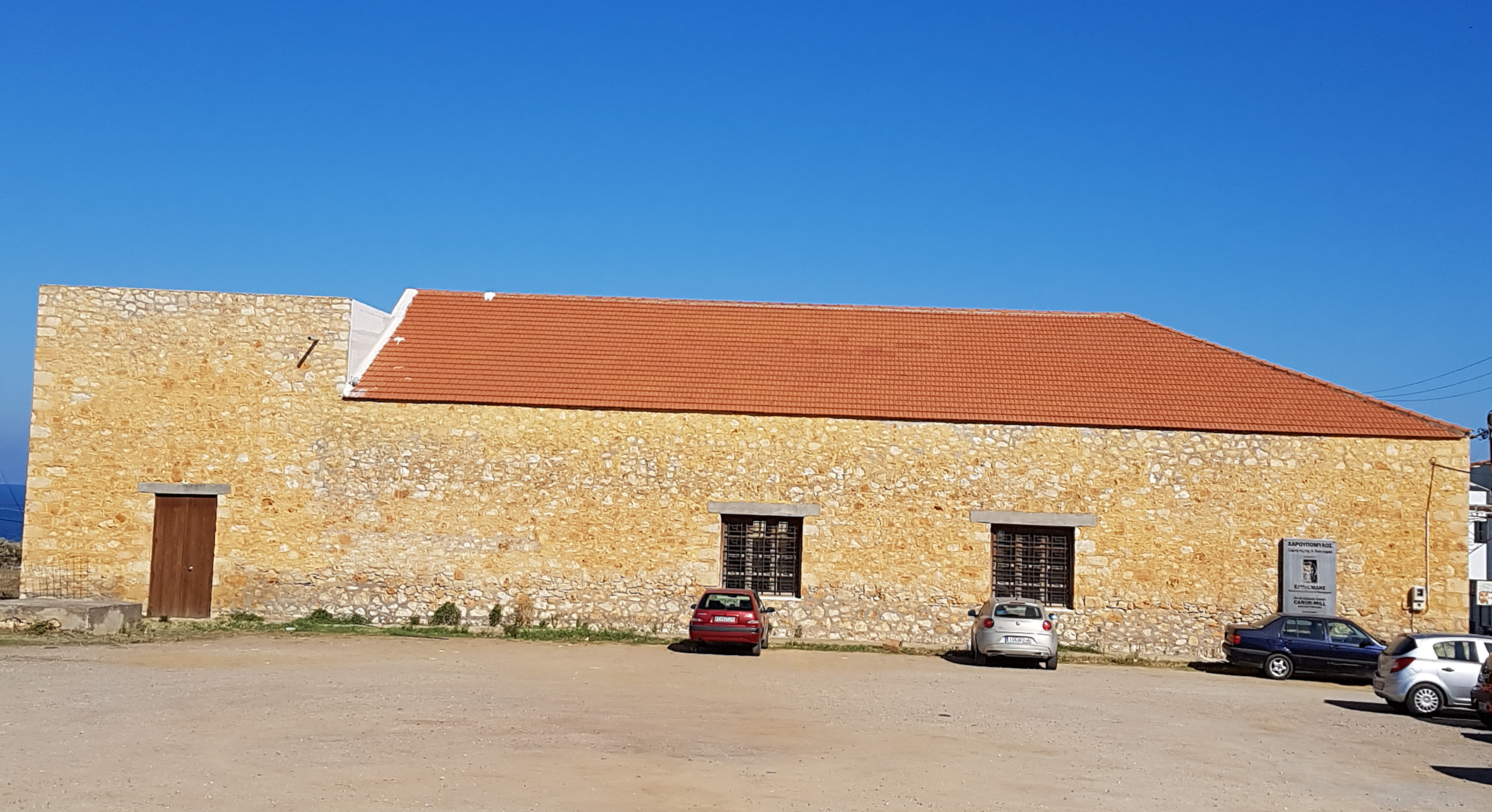 Panormo cherob mill. View from outside